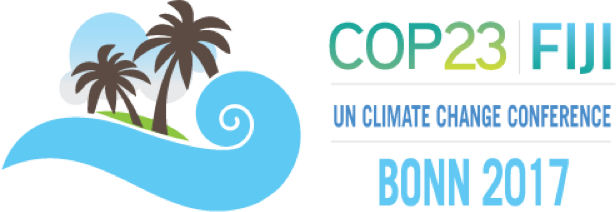 Logo of the 23rd UN Conference on Climate Change from 6 to 17 November in Bonn under the presidency of Fiji